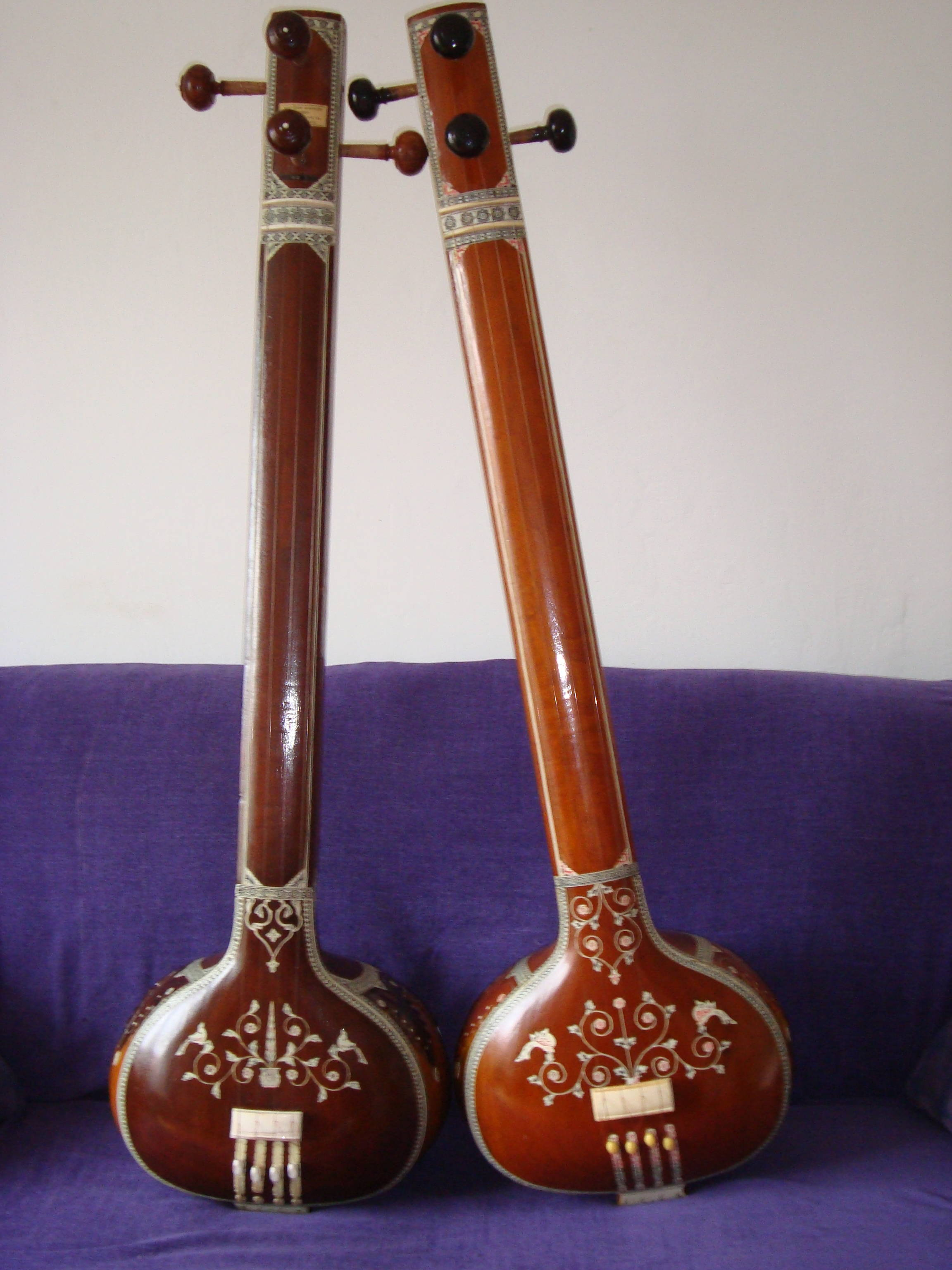 A pair of female vocal tanpuras, ready to go to a concert